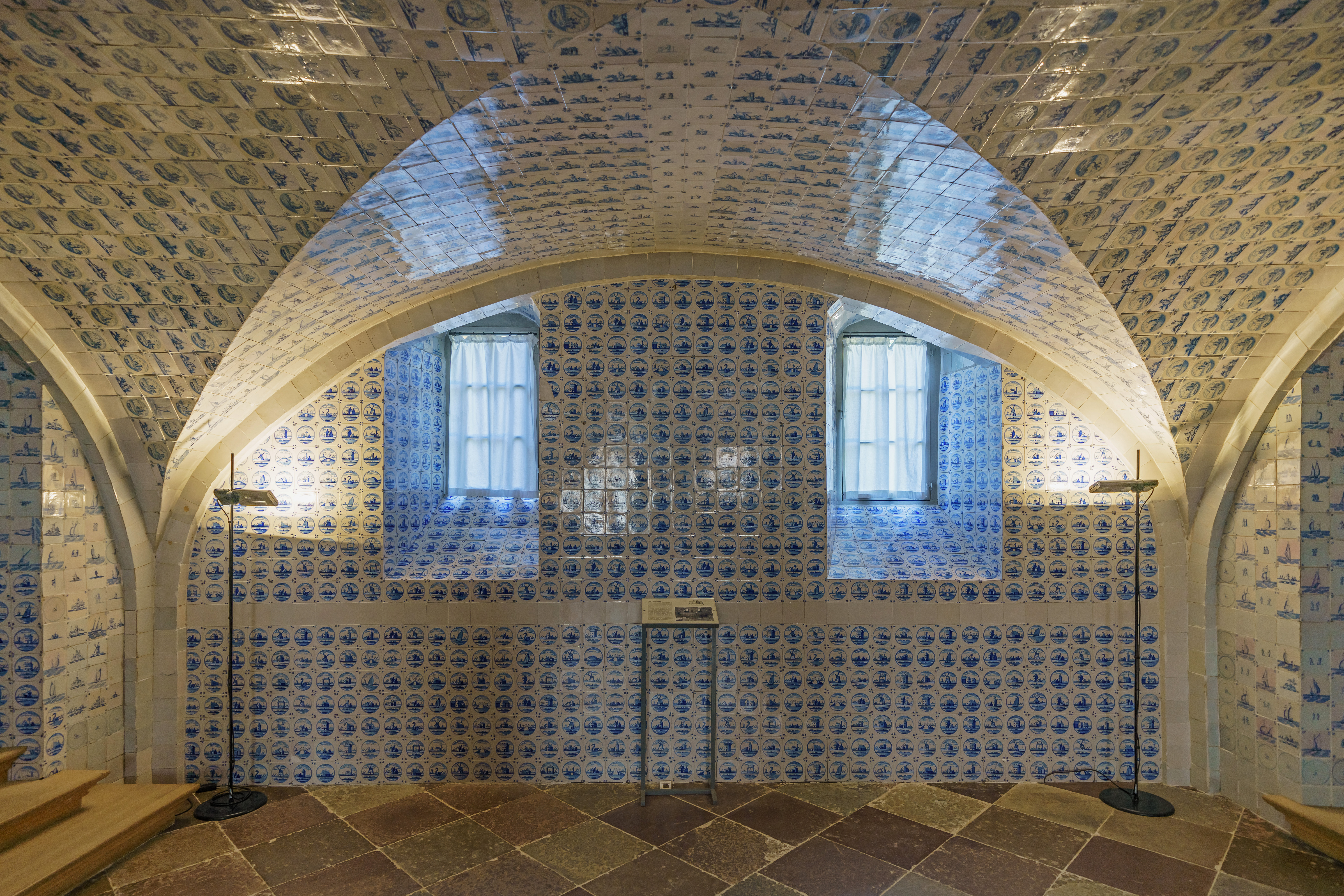 Interior of Caputh Castle near Potsdam, Germany